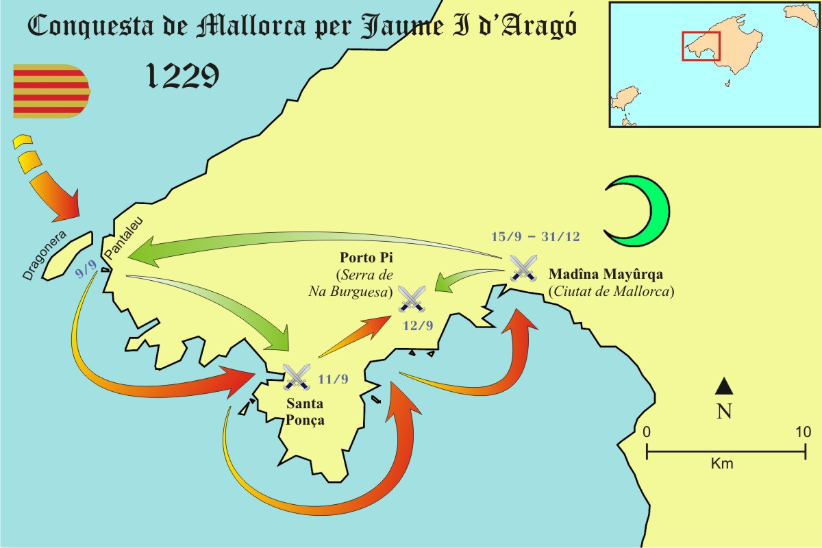 Conquest of Mallorca by James I of Aragon (1229).